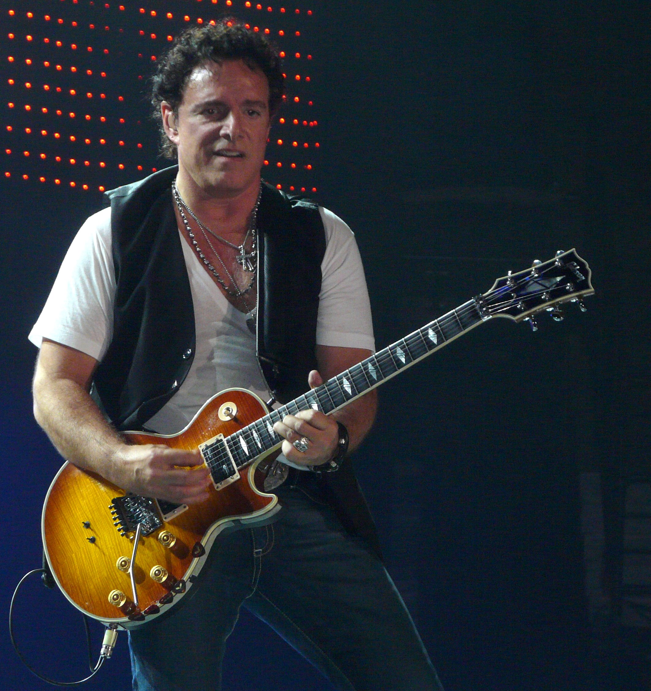 Neal Schon with JOURNEY, Live in Minneapolis, MN on September 16, 2008, taken by Matt Becker